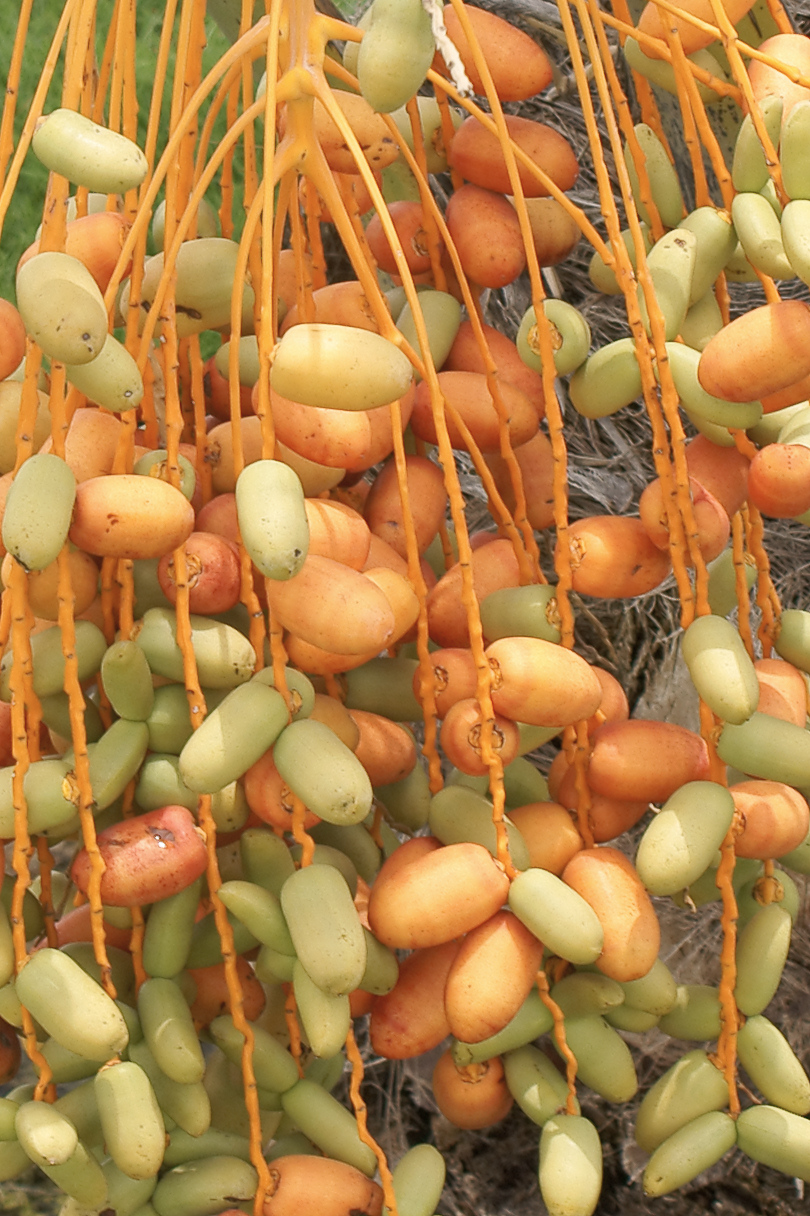 Dates on a phoenix dactylifera.